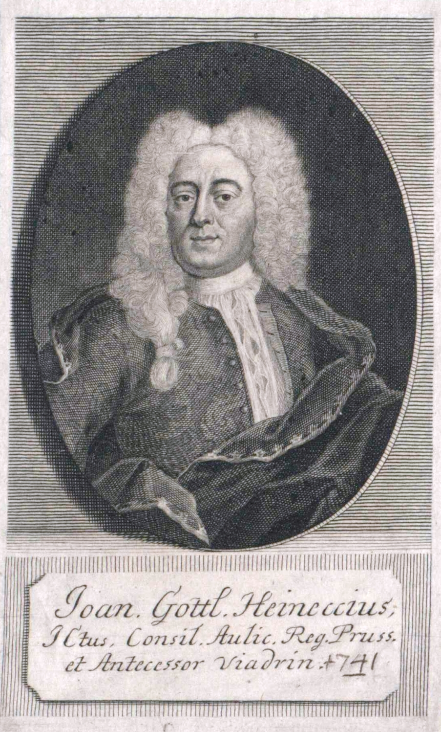 Johann Gottlieb Heineccius (1681-1741)German Judges